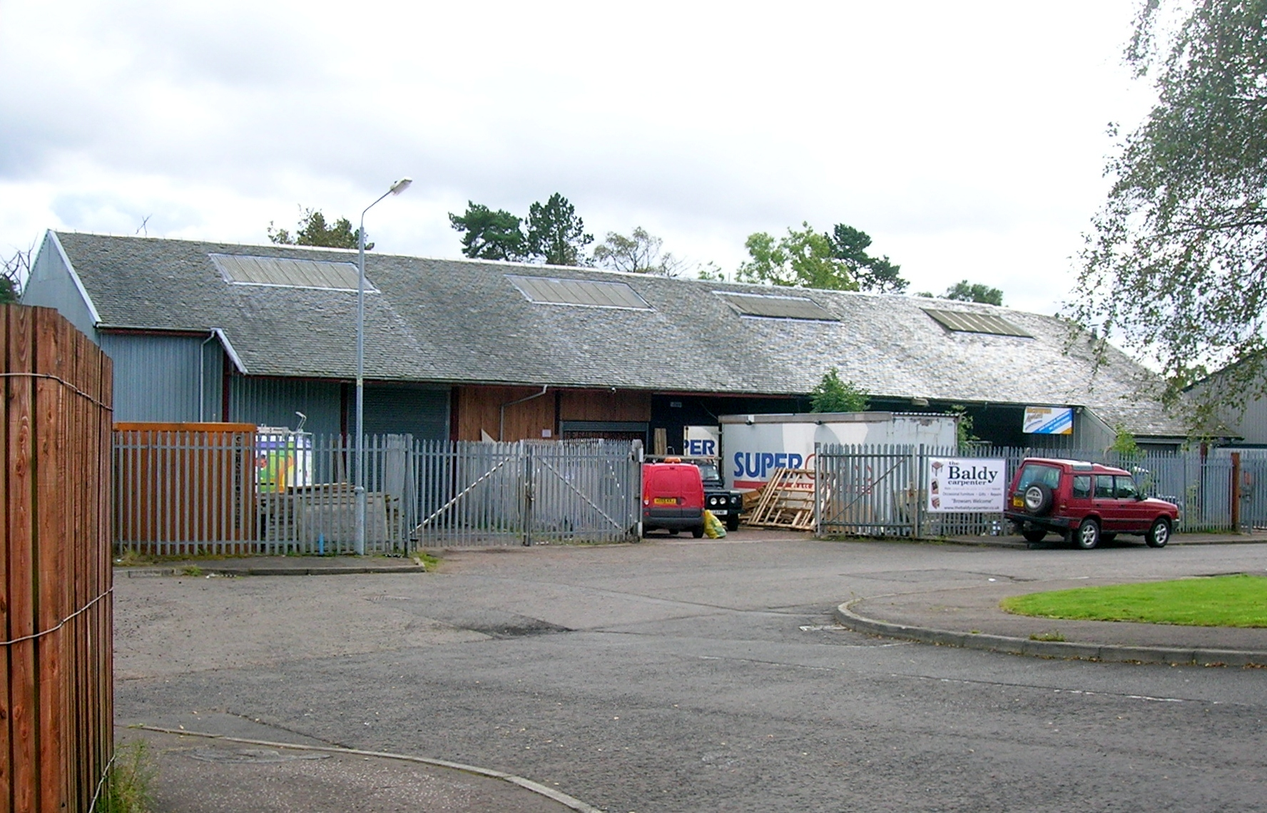 Old goods shed at the site of Strathaven Central station, South Lanarkshire, Scotland.